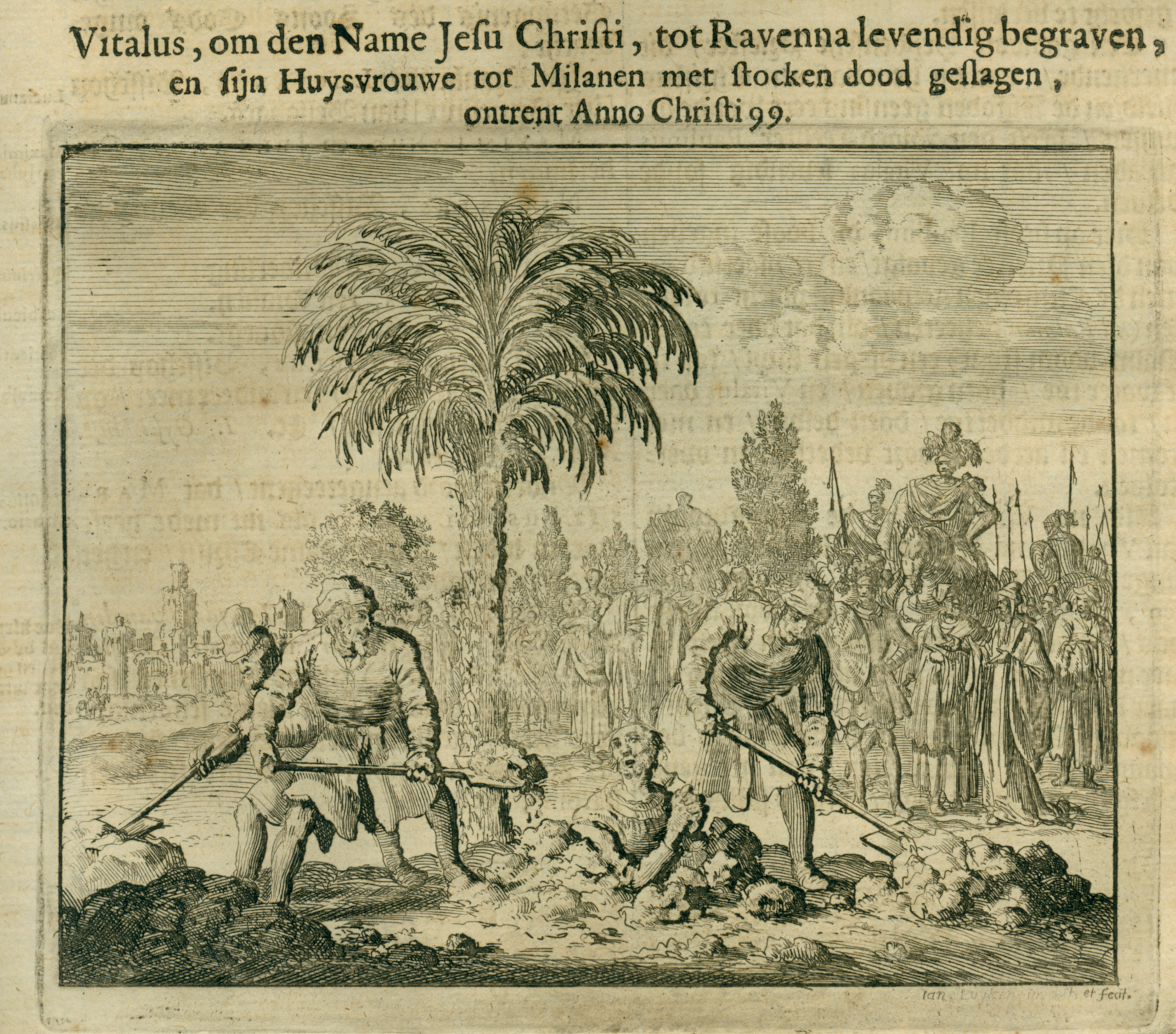 Vitalus (Vitalis) being buried alive. From the Martyrs Mirror, this is an etching by Jan Luyken (1649-1712).